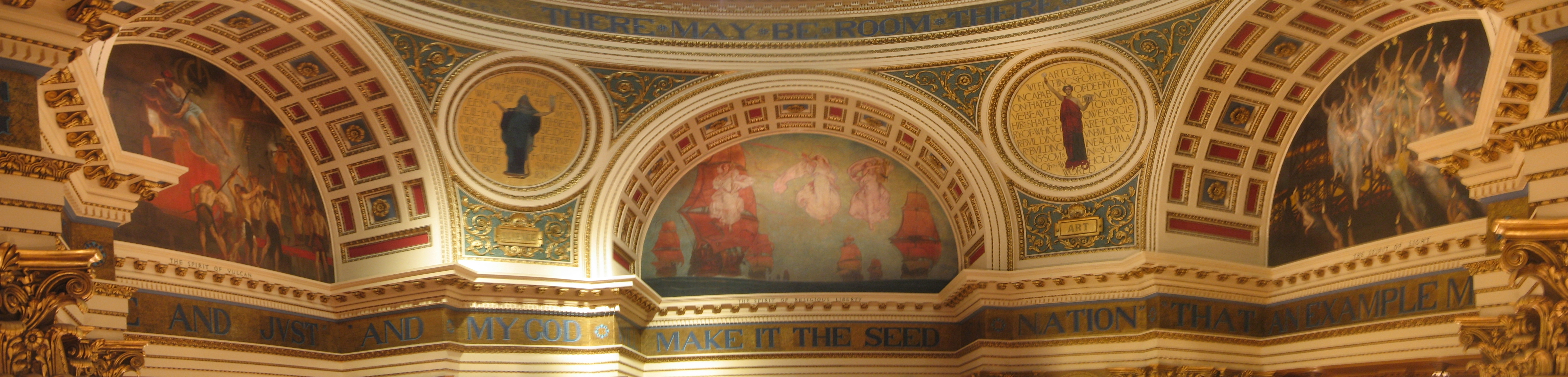 Panorama of the lunettes in the dome of the Pennsylvania State Capitol in Harrisburg, Pennsylvania, USA